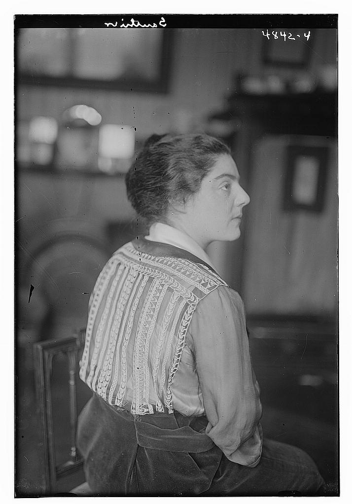 Éva Gauthier in 1919 facing right